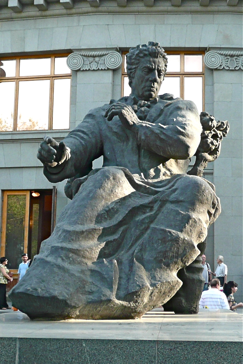 The monument of the composer Aram Khachaturian (1903 - 1978).